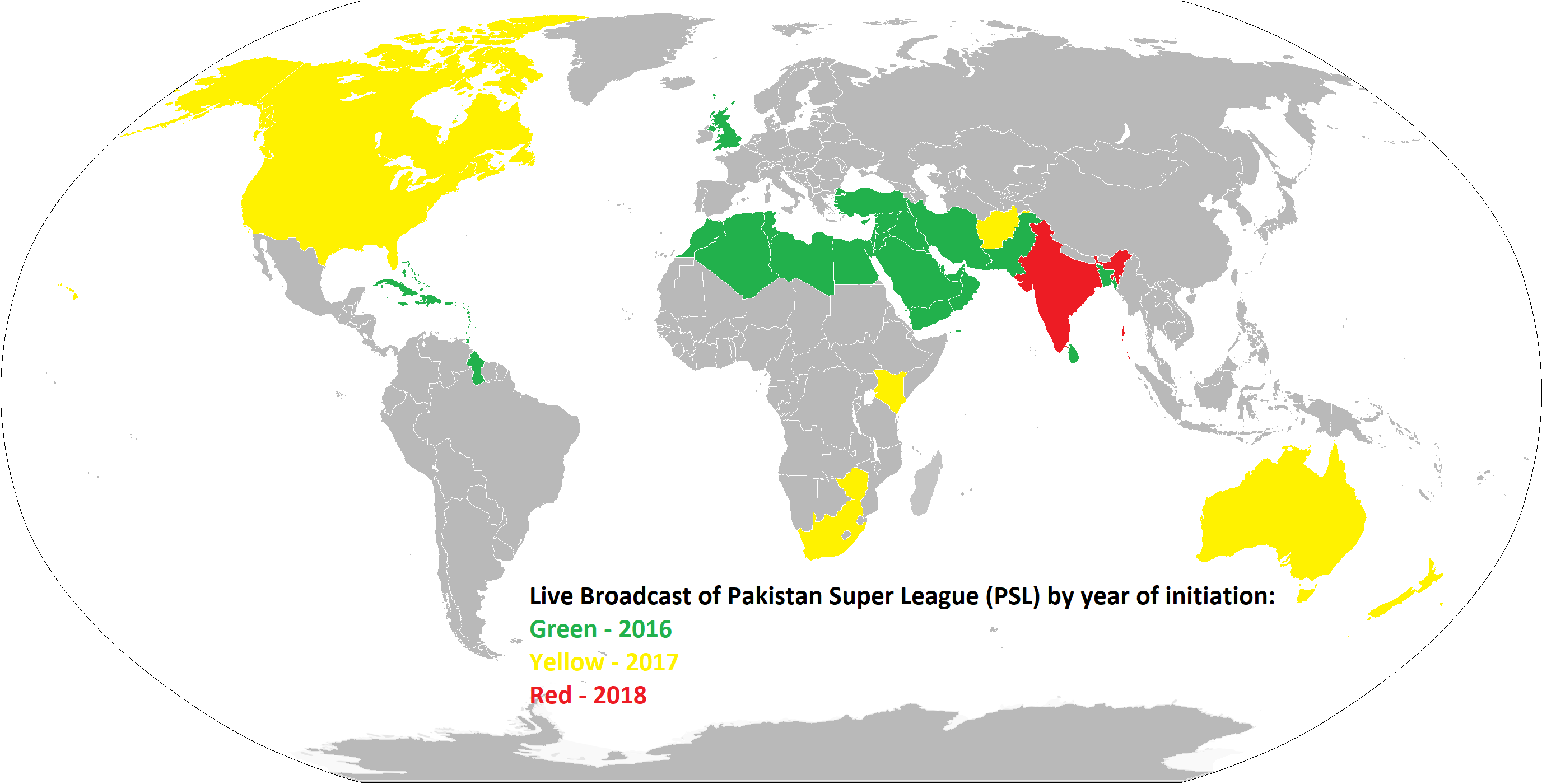 Countries where the Pakistan Super League (PSL) is broadcast live.